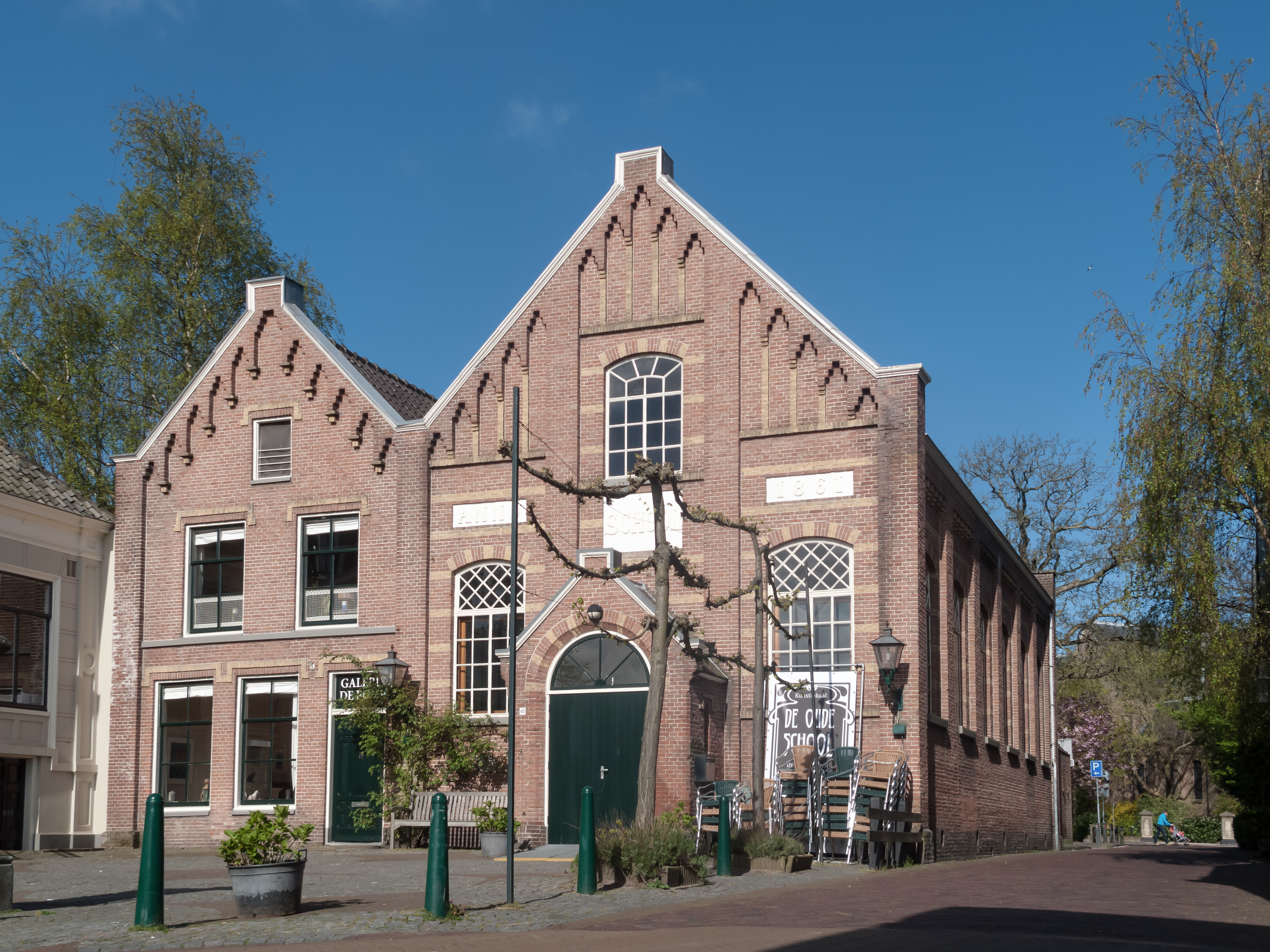 Warmond, restaurant in monumental housew